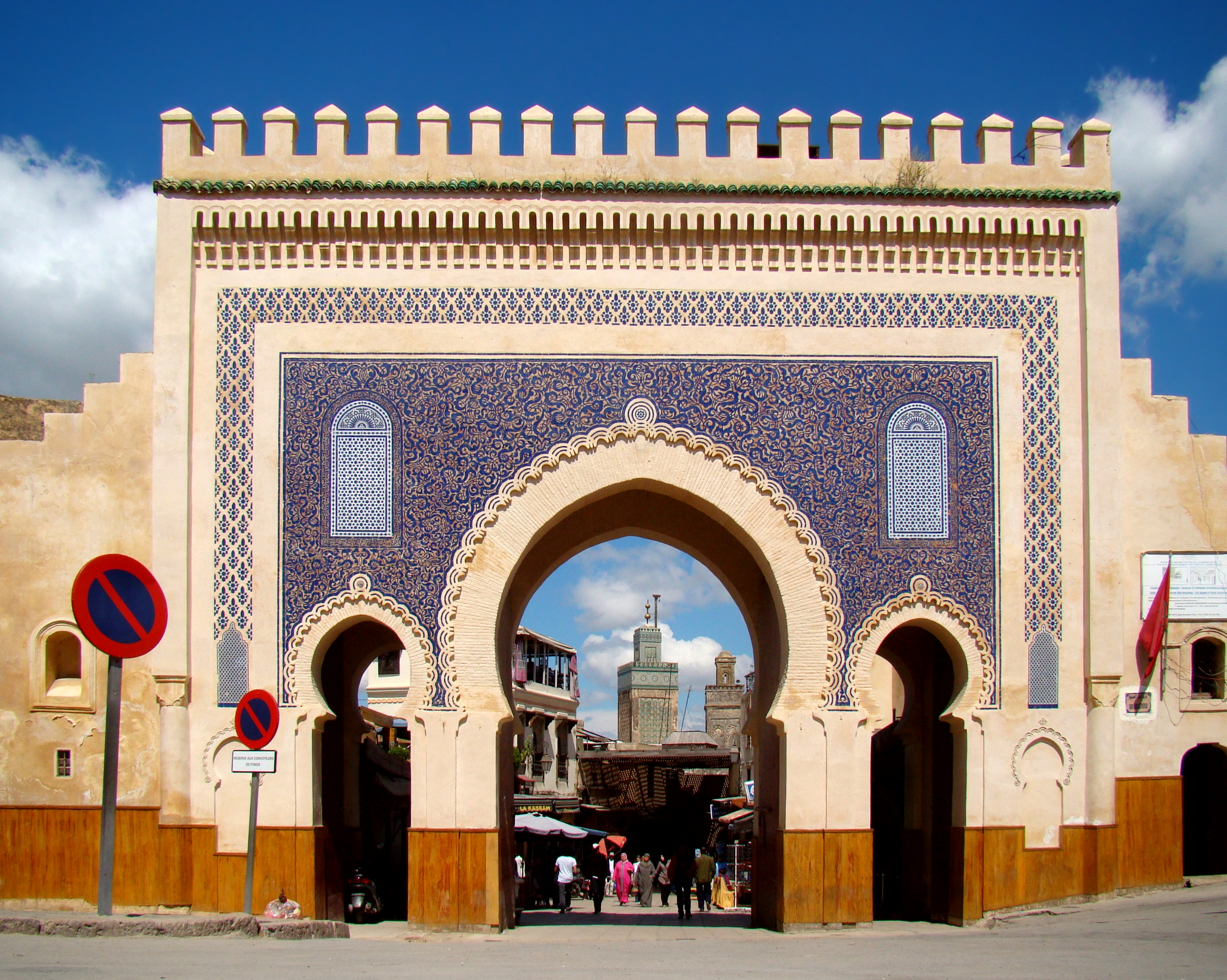 The gate Bab Bou Jeloud leads into the old medina in Fes, Morocco. It is also known as The Blue Gate to Fes.